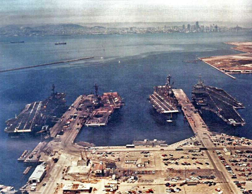 Four U.S. Navy aircraft carriers moored at the Naval Air Station Alameda, California (USA), 4 July 1974. Pictured from left to right are the carriers USS Coral Sea (CVA-43), USS Hancock (CVA-19), USS Oriskany (CVA-34) and USS Enterprise (CVAN-65).